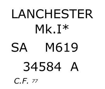 Marking on a Lanchester Mk.I* receiver (serial number is totally random but within the actual span)